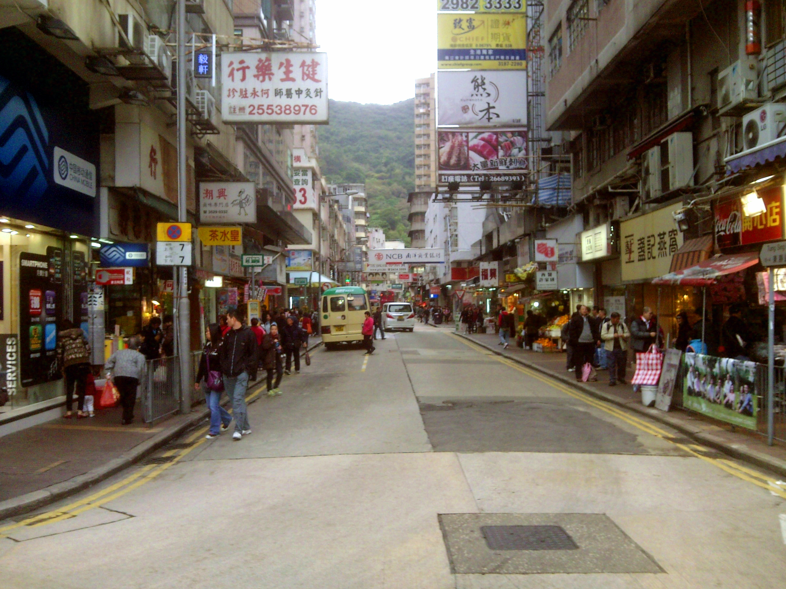 Tung Sing Road, Hong Kong